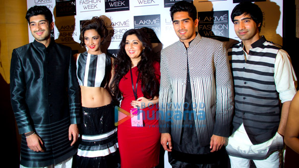 Cast of 'Fugly' at Lakme Fashion Week 2014